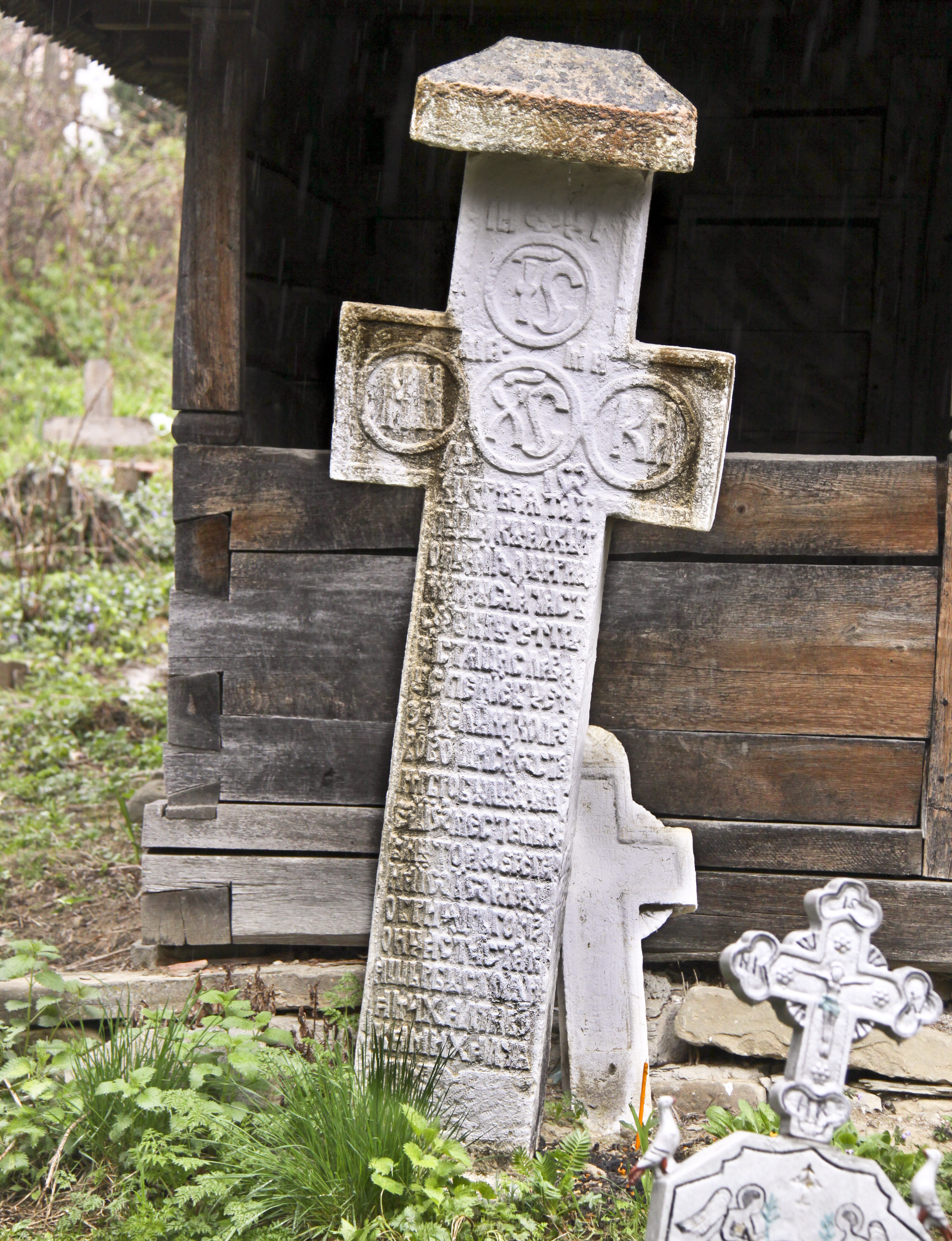 Mesteacăn, Dâmboviţa county, Romania: the wooden church, the cross before the entrance.